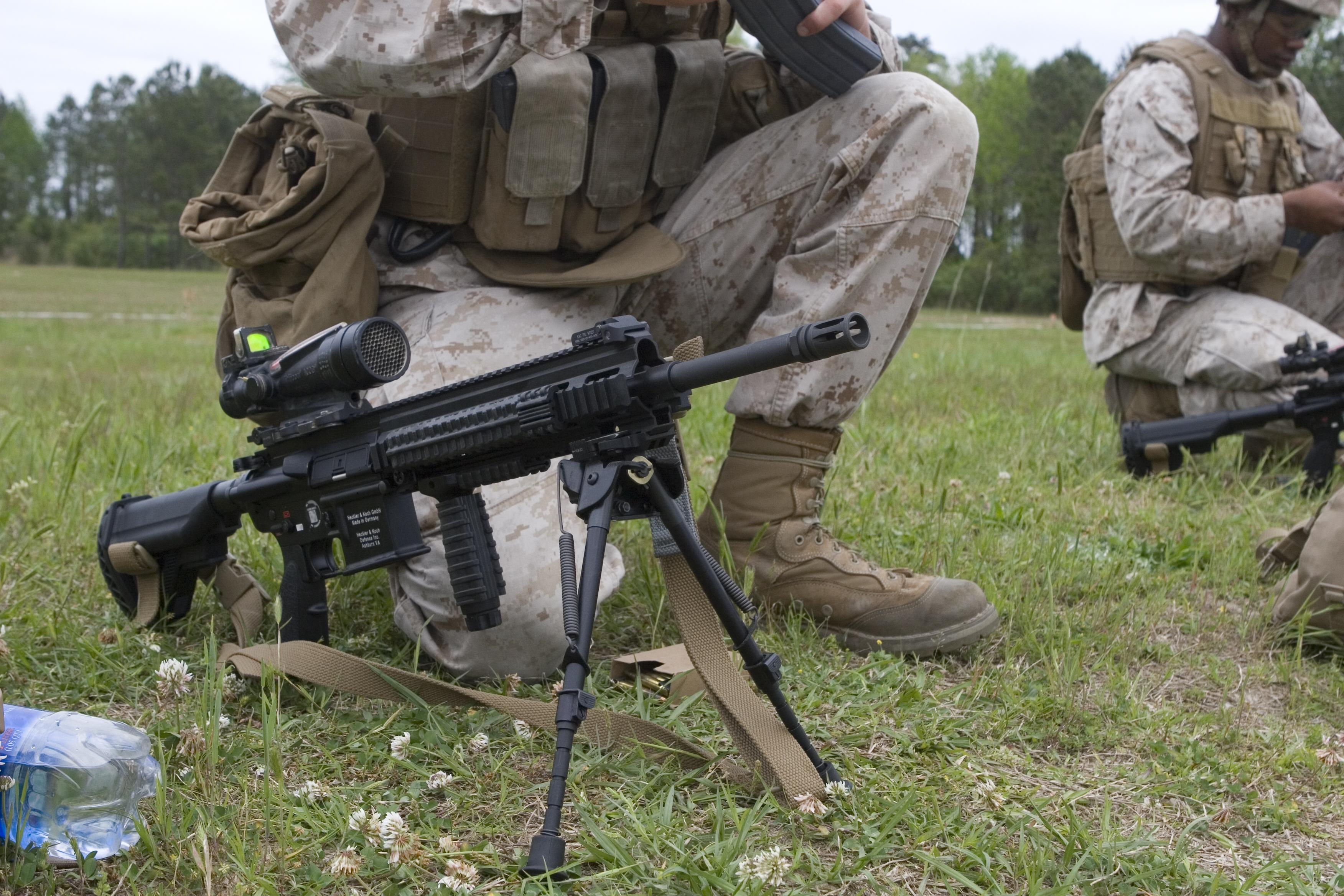 Marines with 2nd Light Armored Reconnaissance Battalion, 2nd Marine Division, load their magazines as they prepare for another round of firing drills with the M27 Infantry Automatic Rifle. The Marines are training with the weapon meant to replace the M249 Squad Automatic Weapon in the unit’s upcoming deployment.